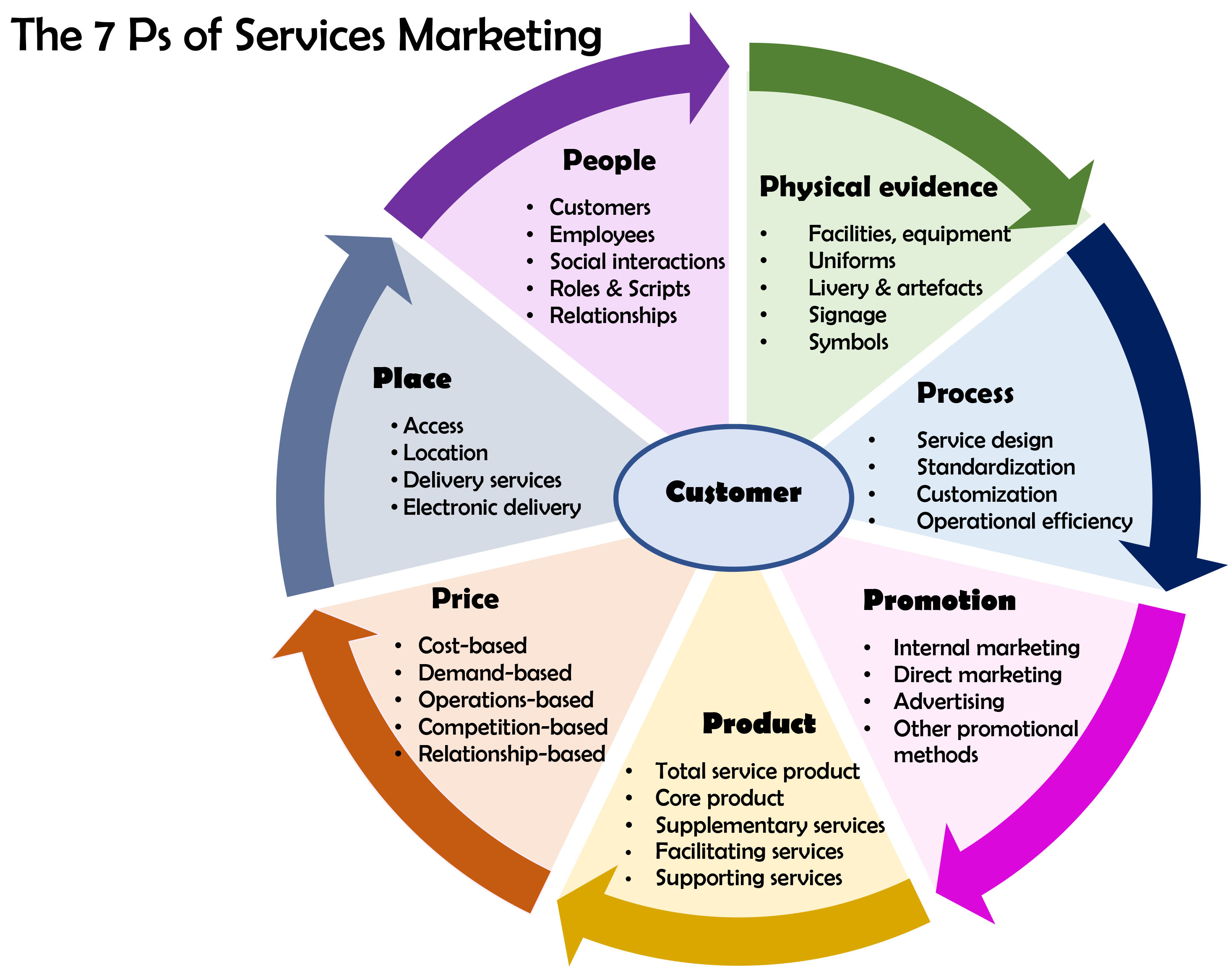 7 Ps; model distilled from a variety of text-books; file formerly submitted as pdf; this is a jpg designed to replace pdf version